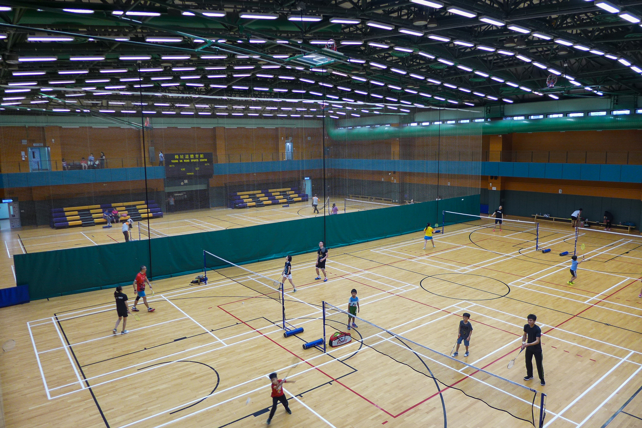 Yeung Uk Road Sports Centre Arena